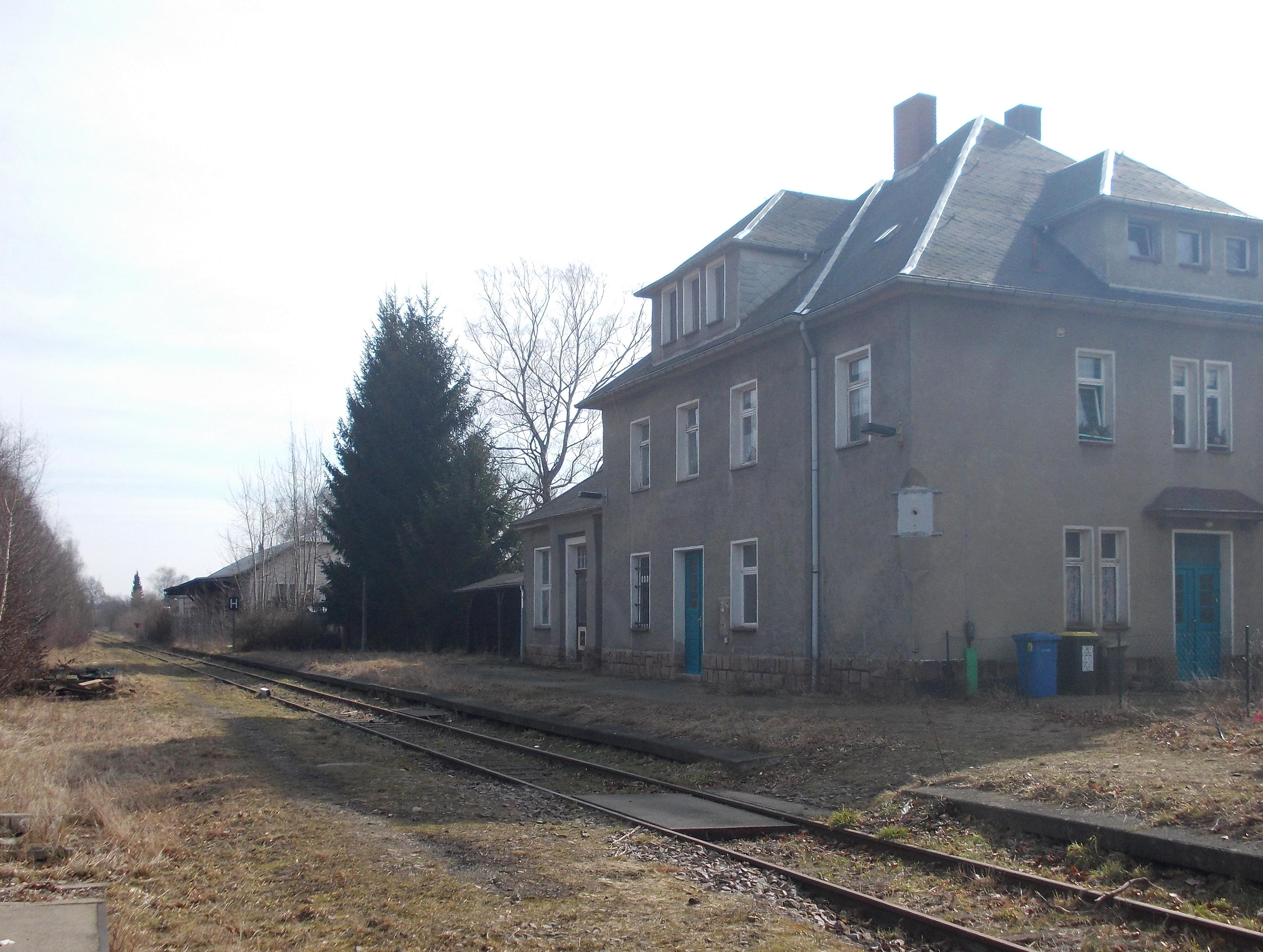 Former Oberfrohna train station (Limbach-Oberfrohna, Zwickau district, Saxony)